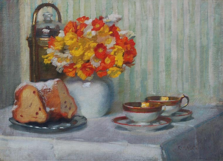 Afternoon coffee